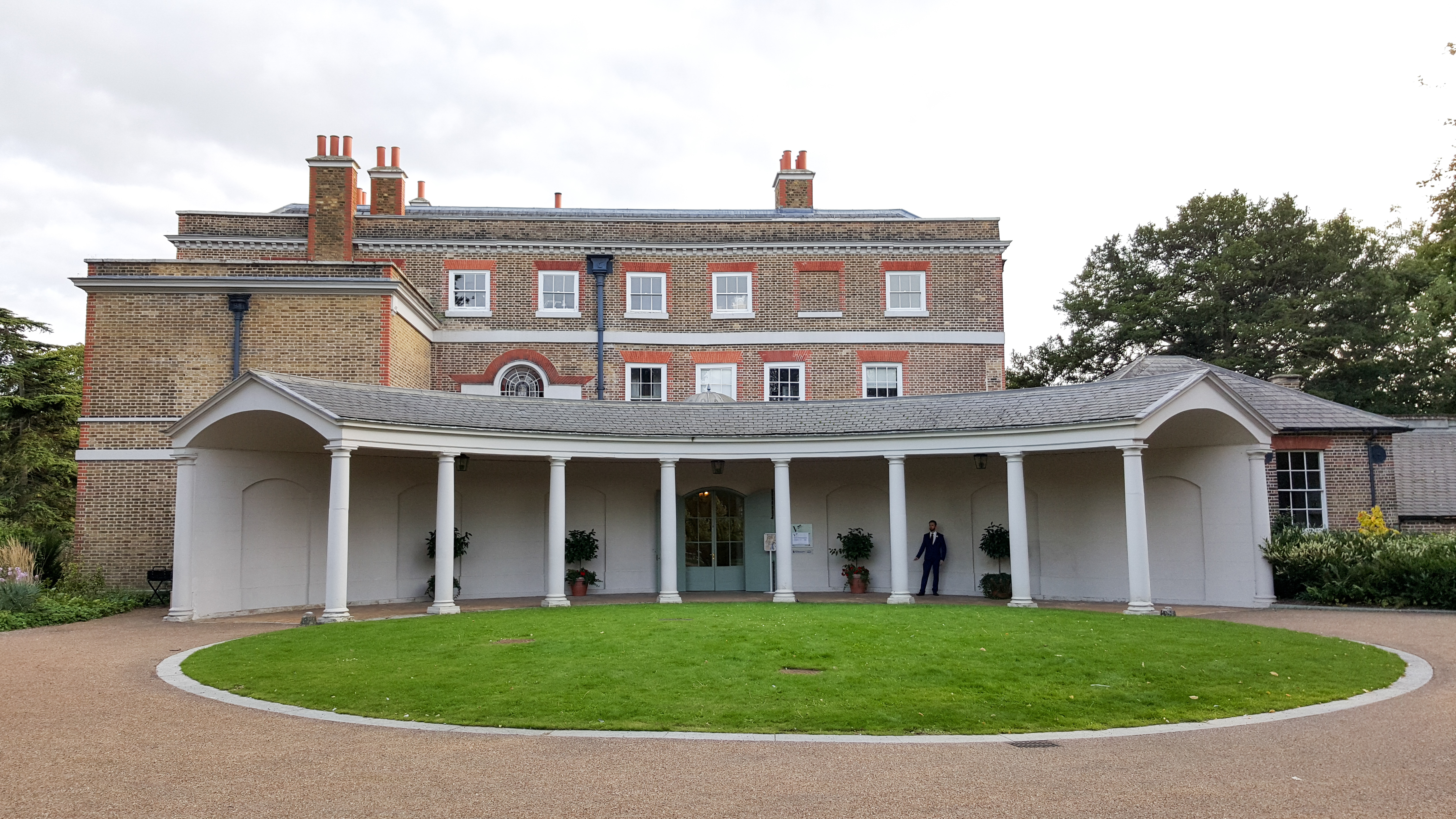 Valentines Mansion front entrance